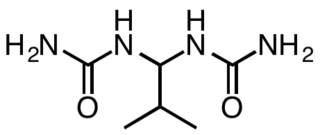 chem structure of IBDU